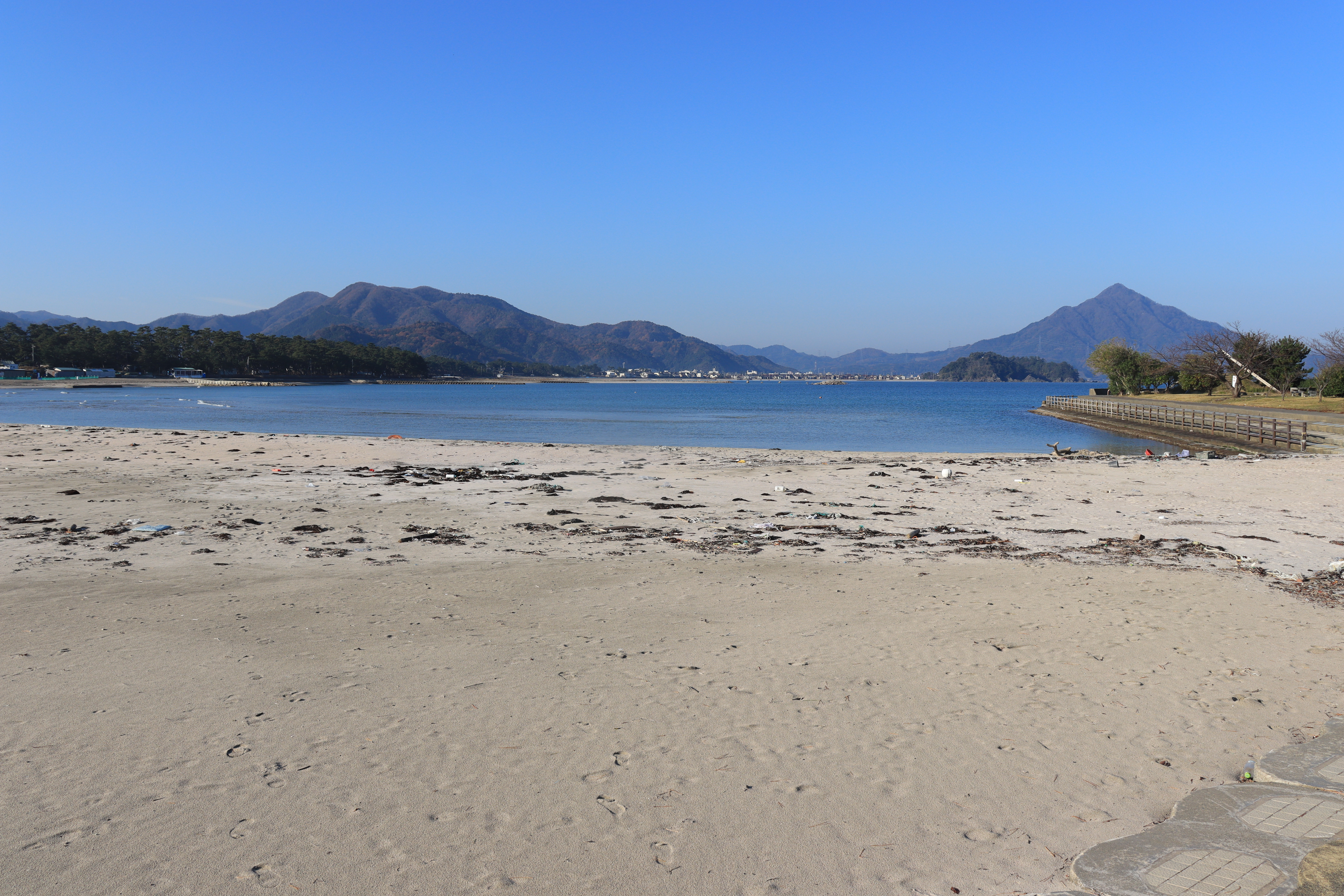 Wakasa Wada Beach and Mount Aoba in Takahama, Fukui Prefecture, Japan.